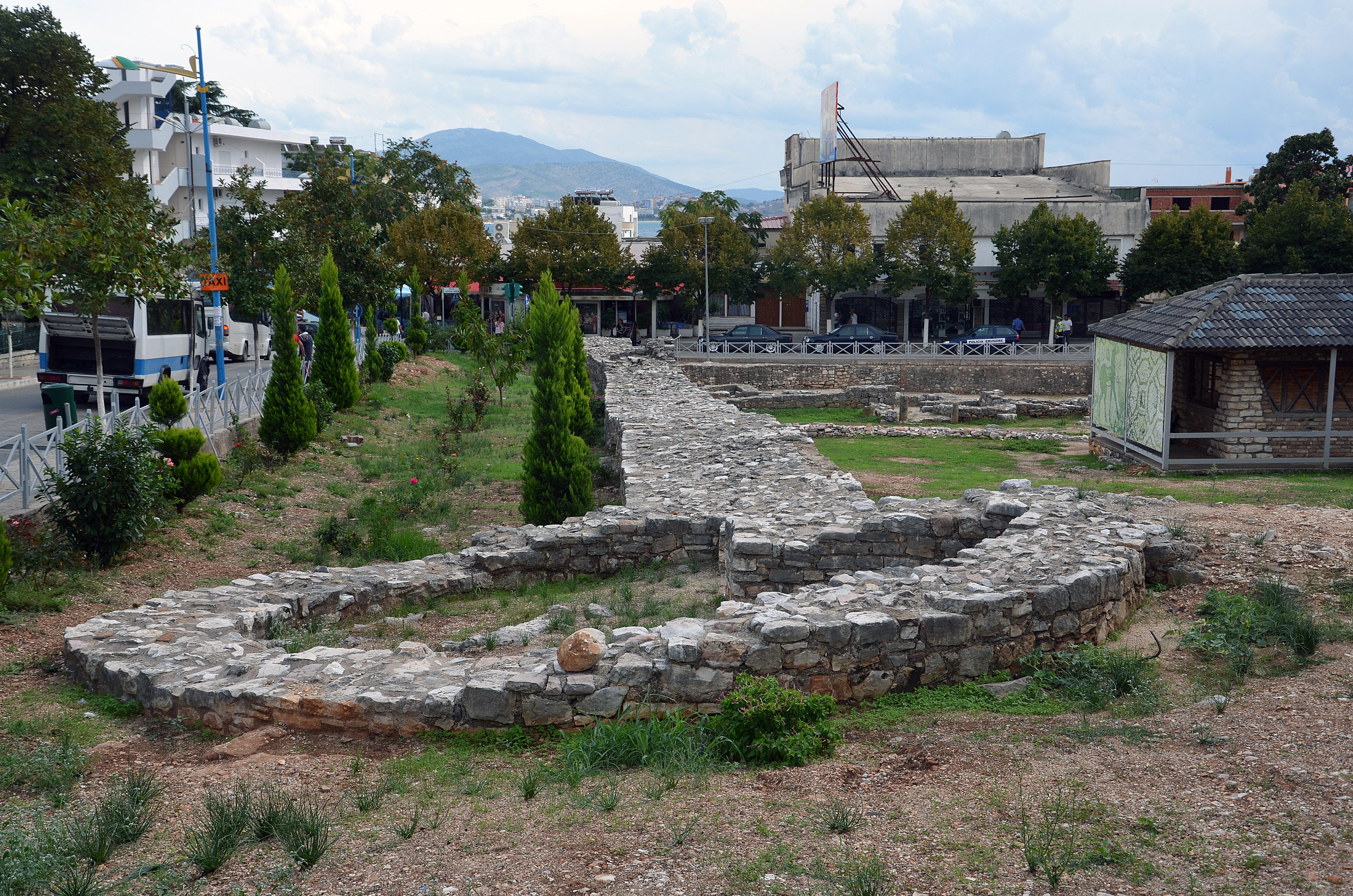 Remains of the late antique city walls of Onchesmos, Sarandë, Albania